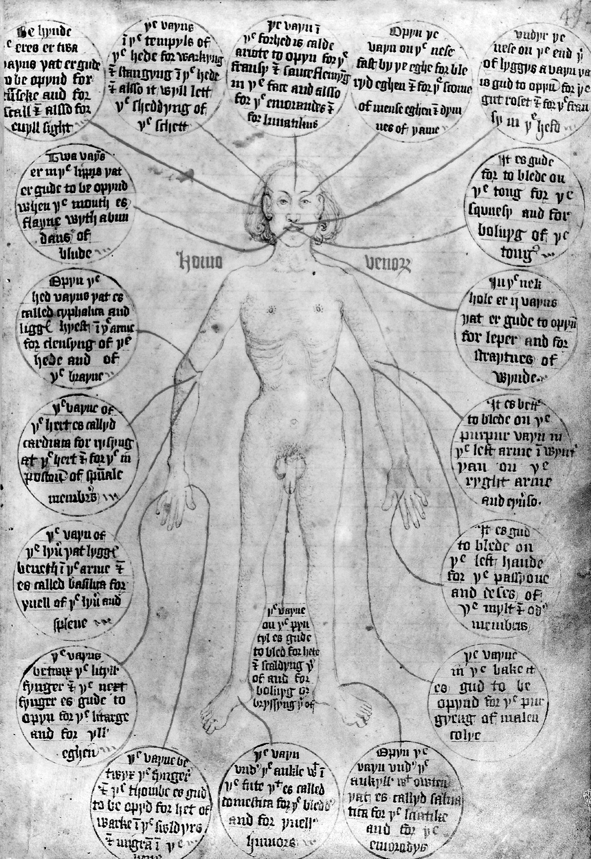 Guidebook of the Barber-surgeons of York, London. Drawing and text: figure of man indicating bloodletting points for various diseases. York, 15th century. Wellcome Images Keywords: Cardiology